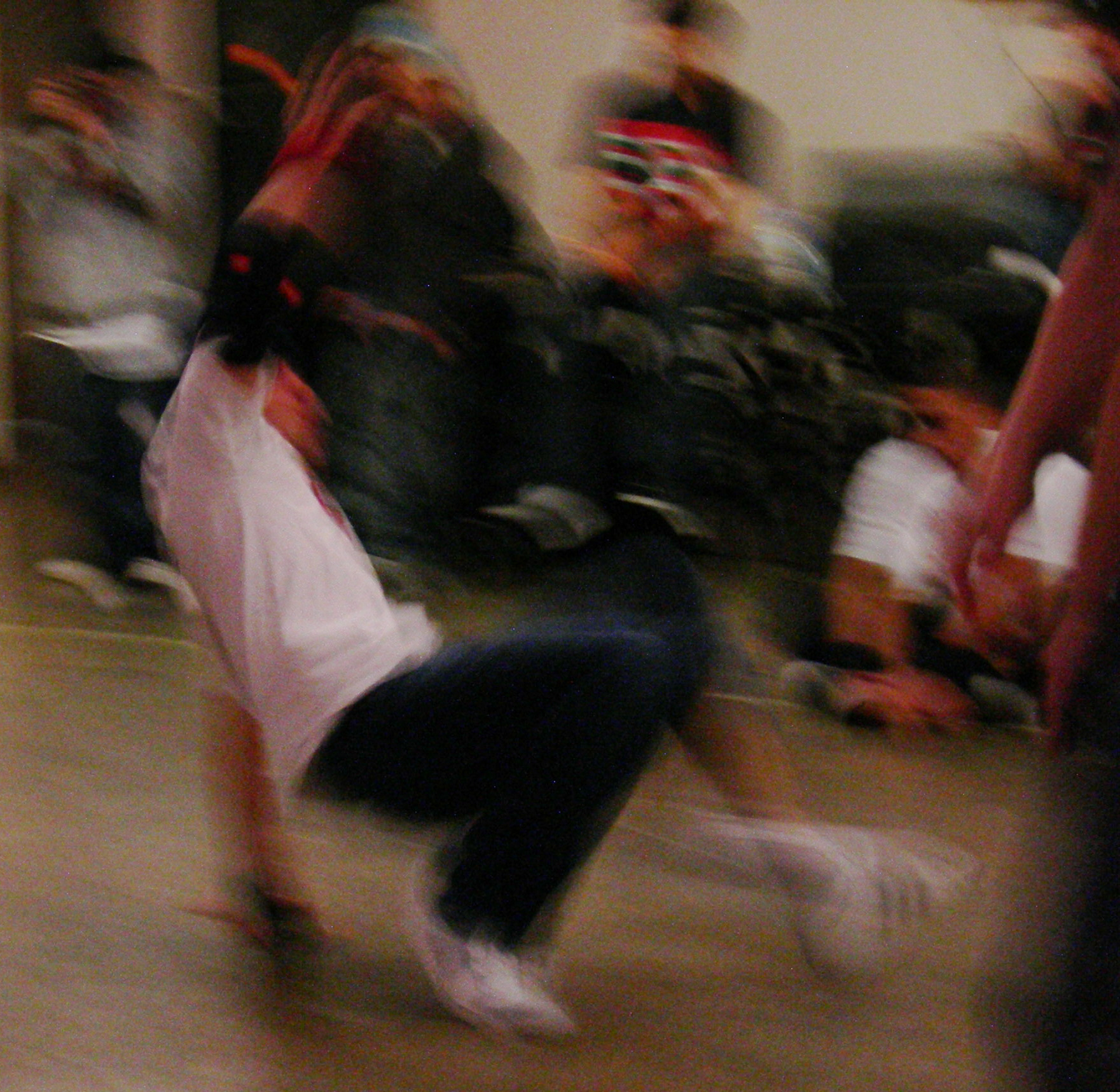 Dance competition. Third Anniversary of Zulu Nation Seattle Celebration of Hip Hop Culture, part of Festival Sundiata, a Festál event at Seattle Center, Seattle, Washington.